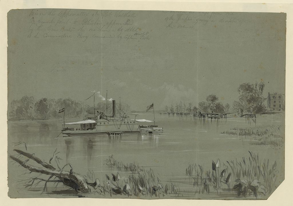 Views on the Appomattox at Port Walthall.